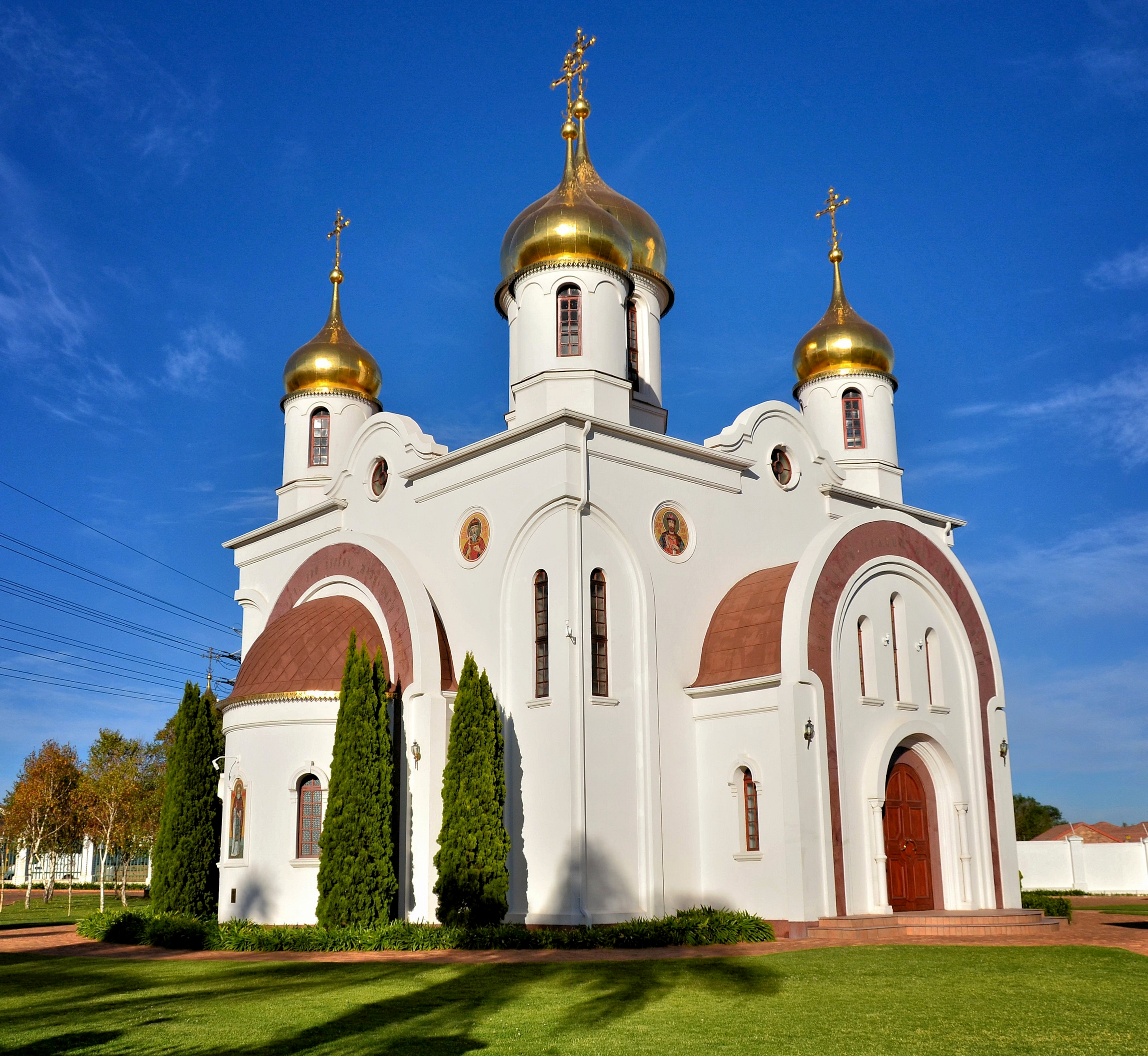 St Sergius Russian Orthodox Church in Noordwyk, Midrand, South Africa